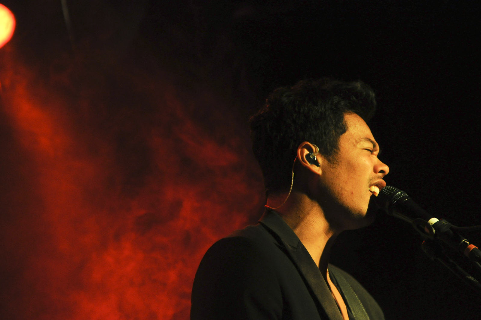 Dougy Mandagi from the band Temper Trap performing at Karlstorbahnhof in Heidelberg, Germany